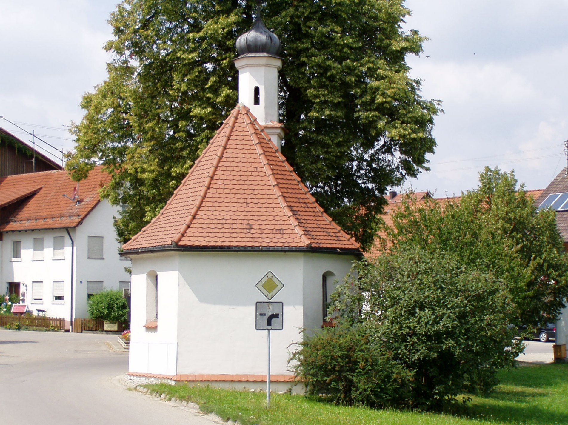 Kapelle in Weiler, Gde Waltenhausen, Lkr Günzburg